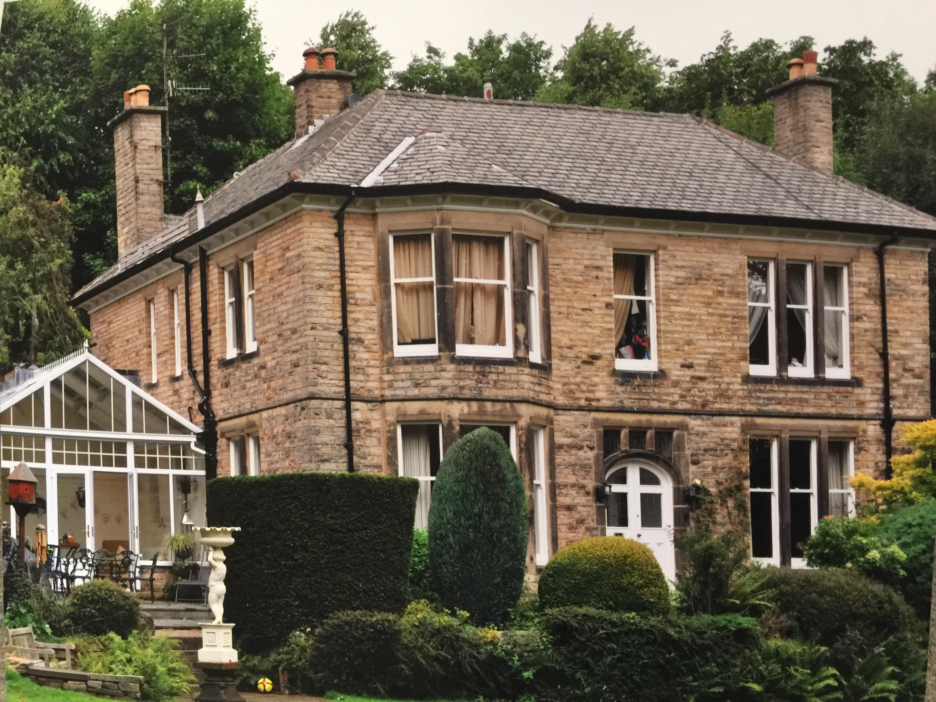 Carsick hall as viewed from gardens on carsick hill road